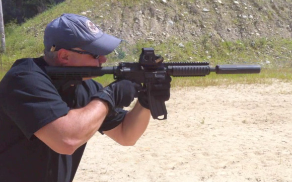 300 AAC BLACKOUT shooting.